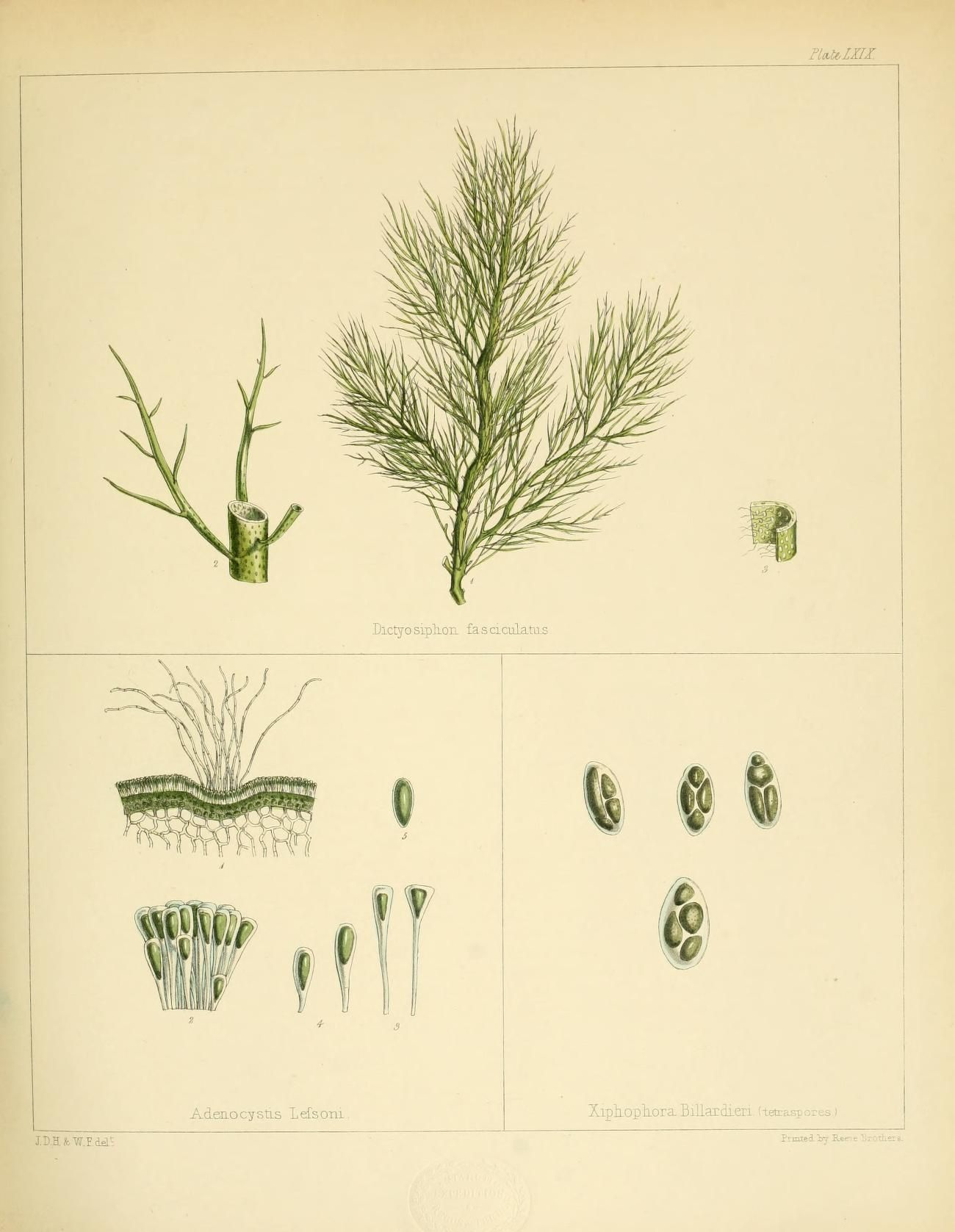 jpg of Plate LXIX of Hooker's Flora Antarctica. Made up of three smaller images of various species of algae. Fig I: Dictyosiphon fasciculatus Hook. fil. et Harv.; Fig II: Adenocystis lessoni Hook. fil. et Harv.; Fig III Xiphophora billardieri (tetraspores) Mont.